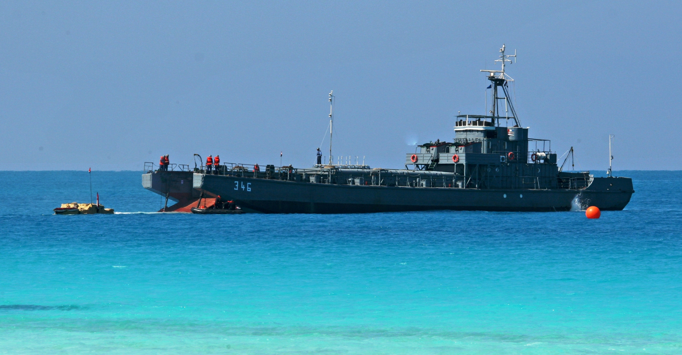 An Egyptian amphibious vehicle leaves an Egyptian landing craft during an amphibious assault demonstration in Alexandria, Egypt, Oct. 12, 2009, during exercise Bright Star 2009.